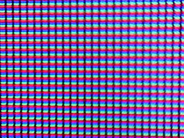 Phone's pixels